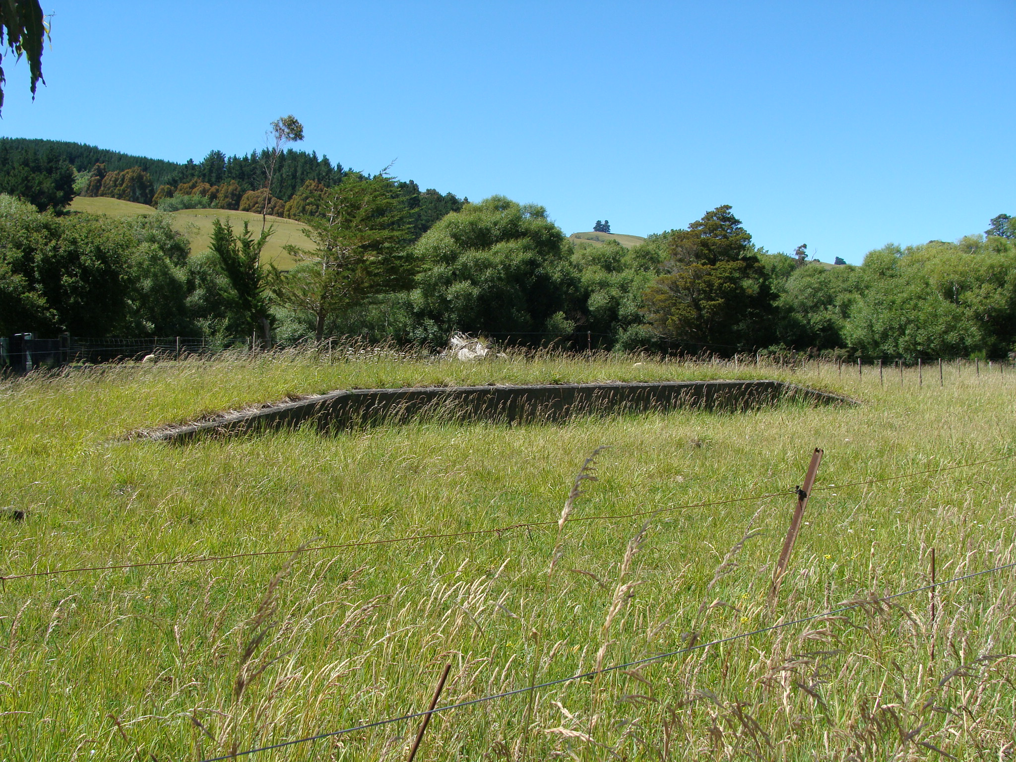 Mauriceville railway station loading bank.